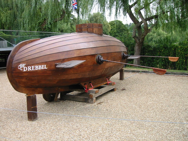 The Drebbel. A reproduction wooden submarine in the grounds of the museum